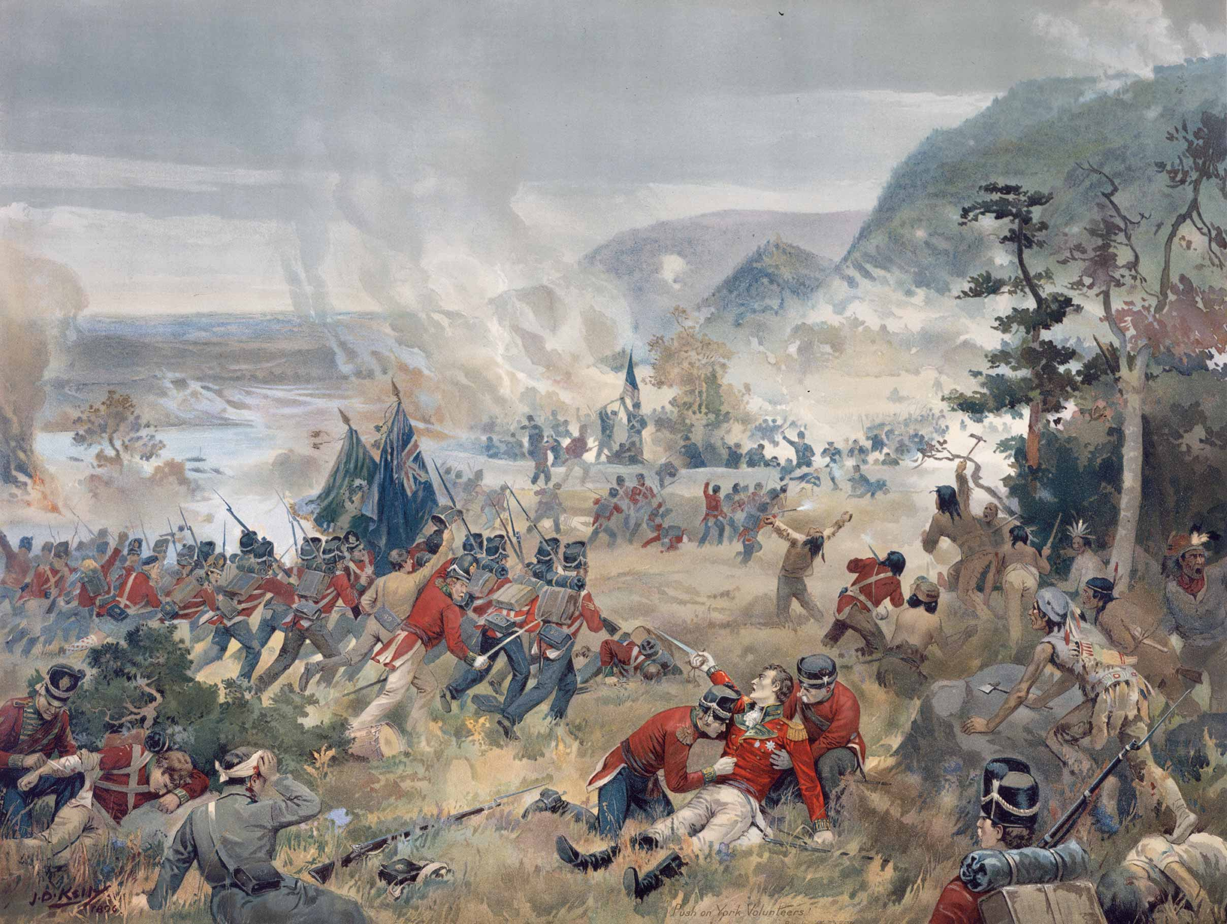 Image of the death of General Brock at the Battle of Queenston Heights by John David Kelly (1862 - 1958) published 1896.